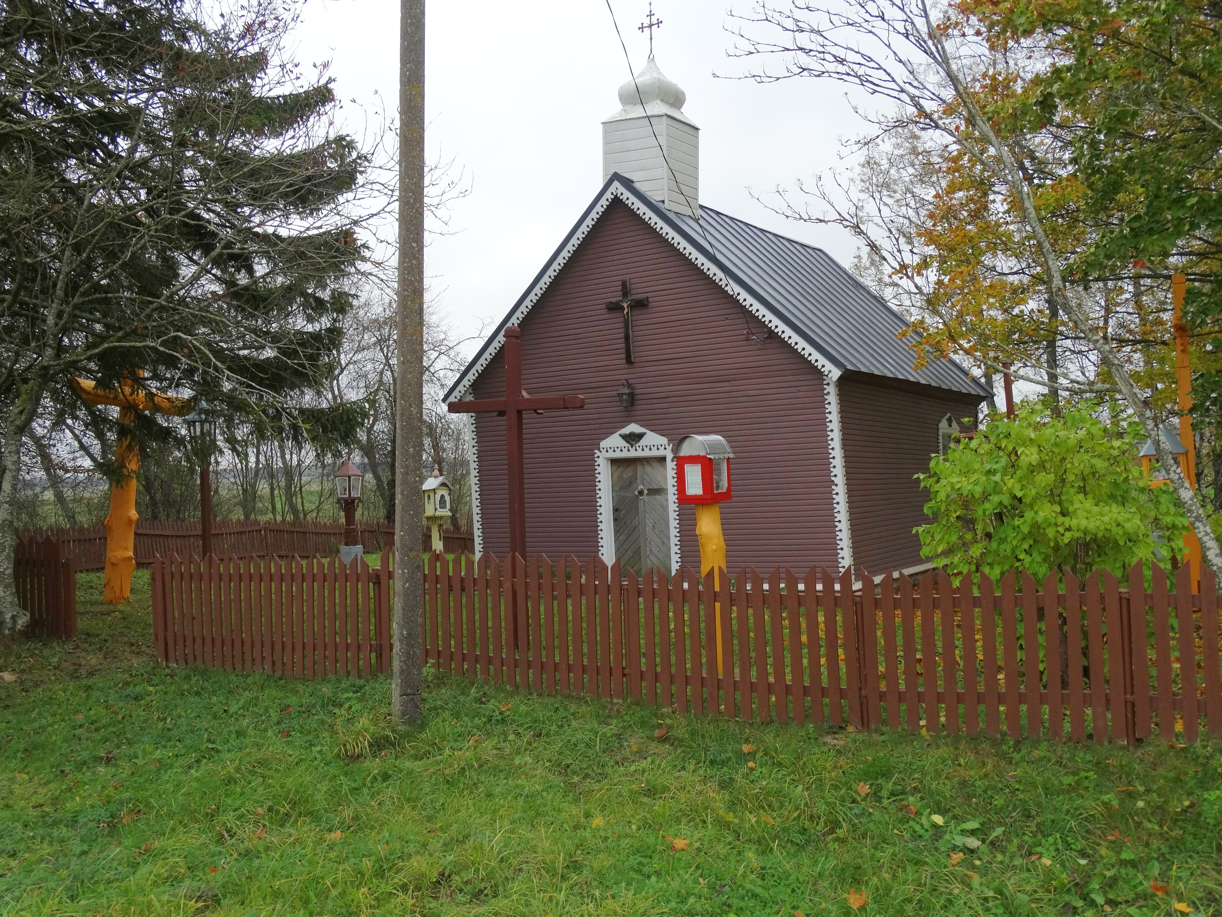 Chapel in Stulpinai, Telšiai district, Lithuania